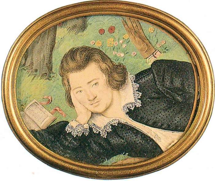 Henry Percy, 9th Earl of Northumberland (April 27, 1564—November 5, 1632) born at Tynemouth Castle in Northumberland, England, the son of Henry Percy, 8th Earl of Northumberland, whom he succeeded in 1585.